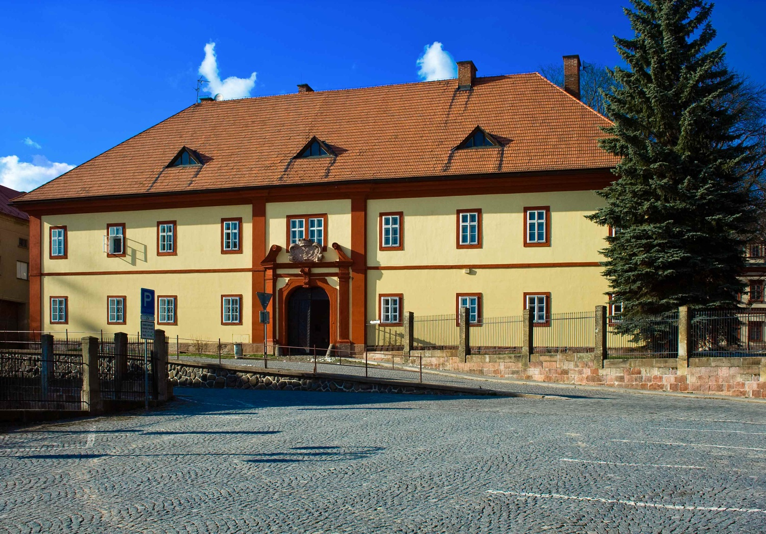 Harrach's brewery in Jilemnice